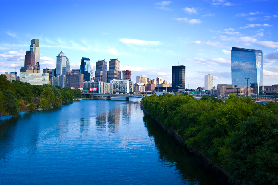 Philadelphia Skyline 2008 by Ed Yakovich